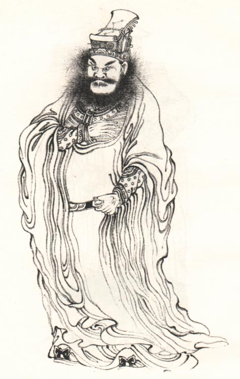 胡大海，明朝军事将领。